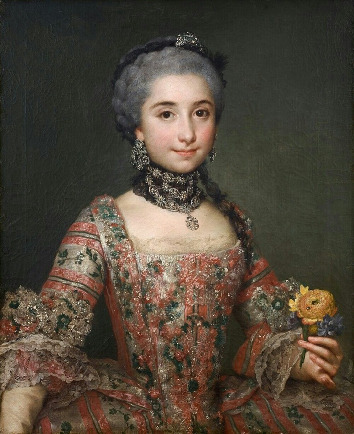 Portrait of Isabel Parreño Arce Ruiz de Alarcón y Valdes, marquise de Llano, by Anton Raphael Mengs (1763)